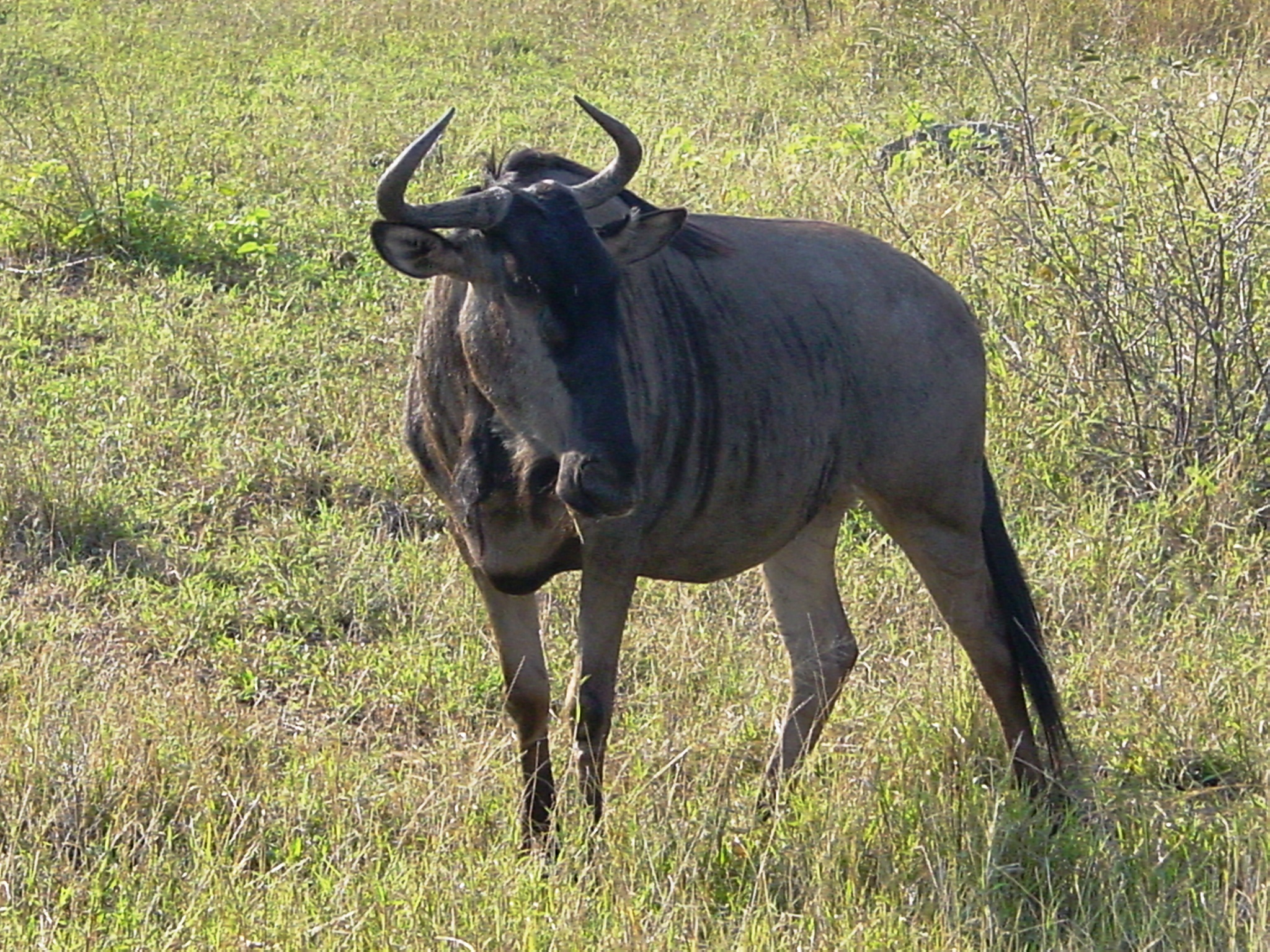 Connochaetes taurinus, Kruger National Park